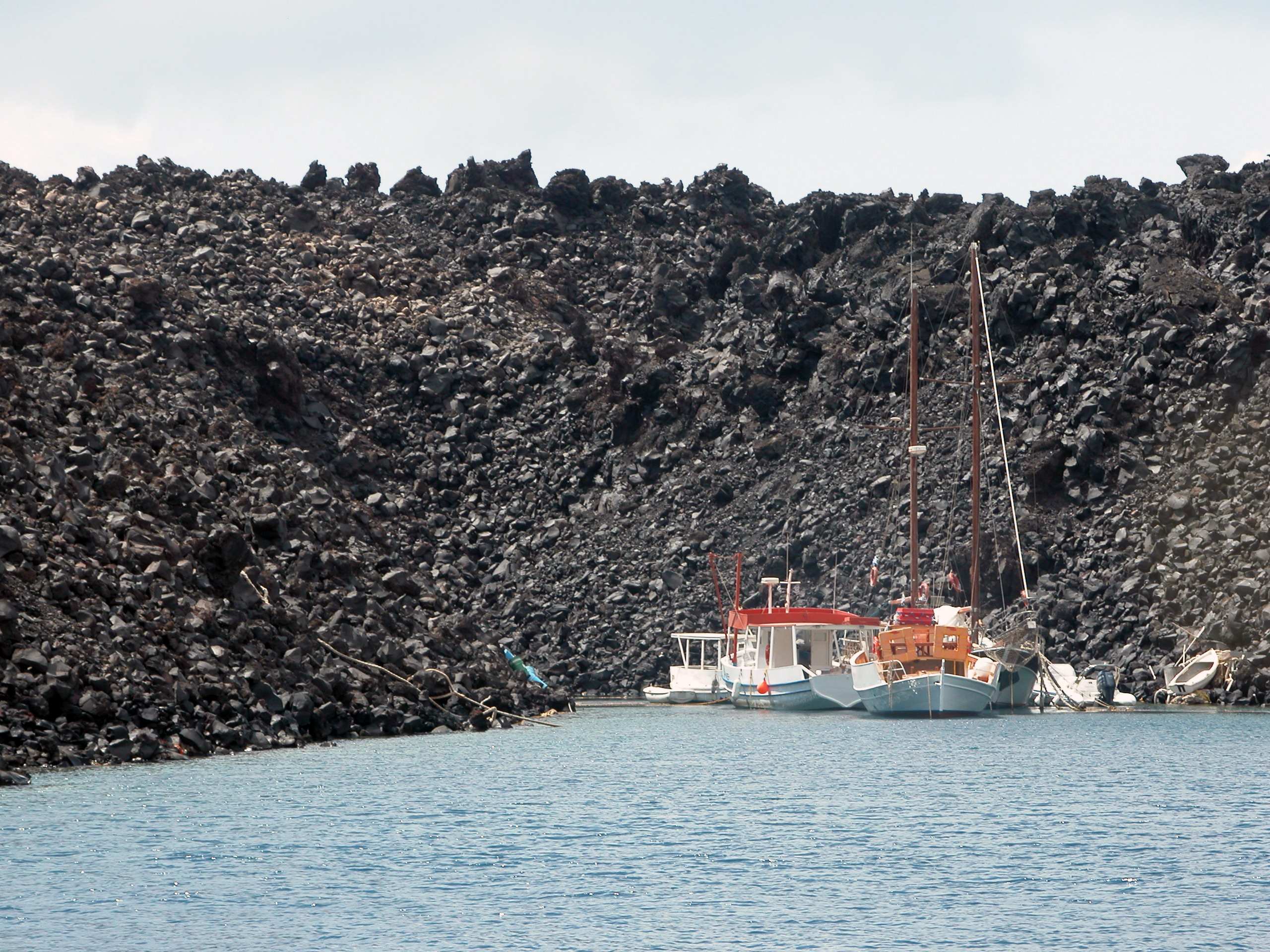 Boats, moored to large basalt rocks at Nea Kameni, Santorini.